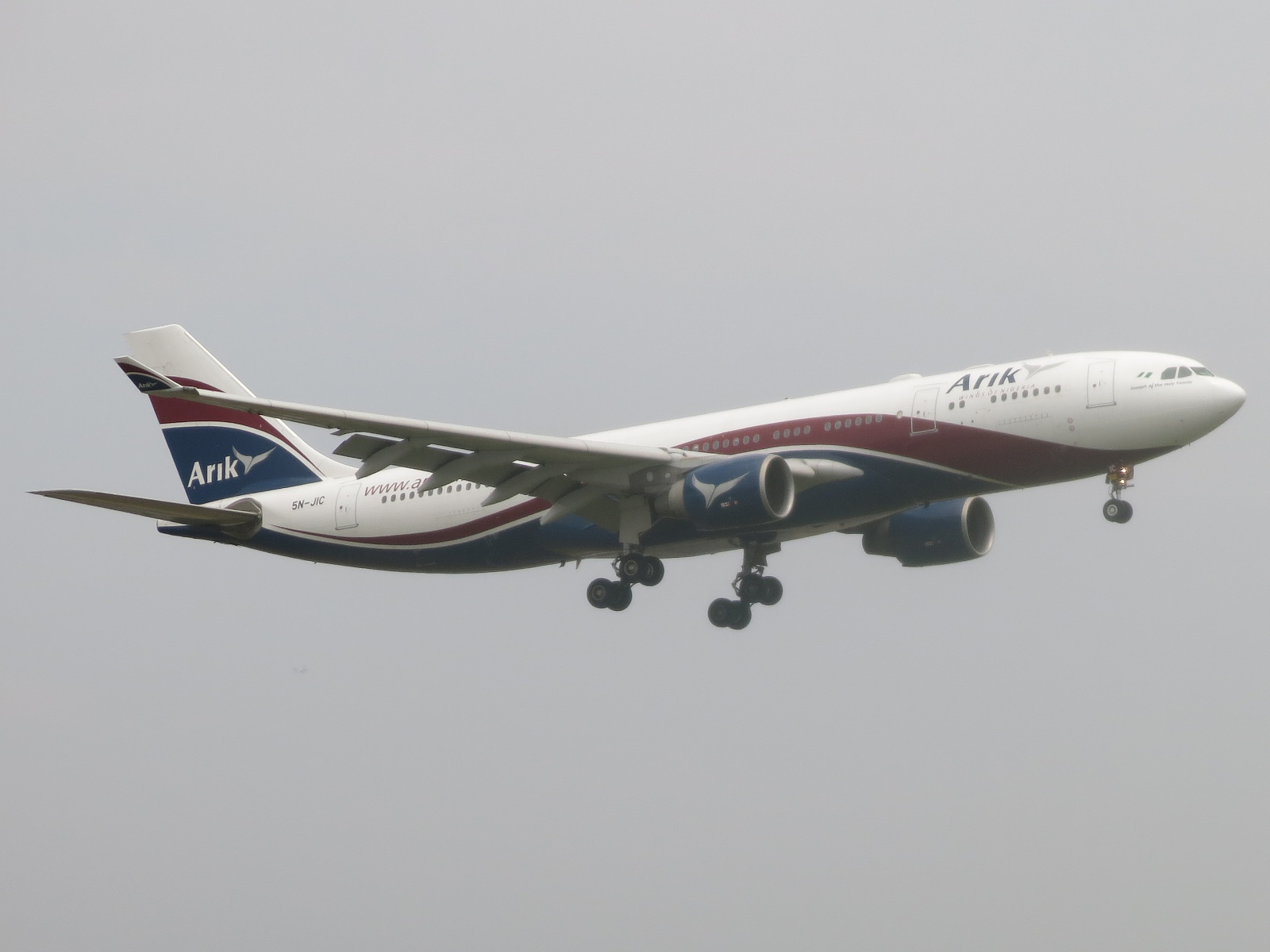 Arik Air Flight 107 is arriving to Runway 13L at John F. Kennedy International Airport in Queens, New York, USA, from Murtala Muhammed International Airport in Ikega, Lagos State, Nigeria, 7 hours late.